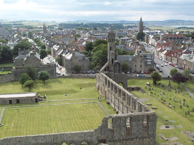 St. Andrews from the ruined Cathedral.